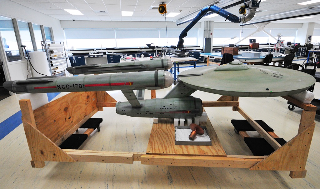 NCC-1701 Prop